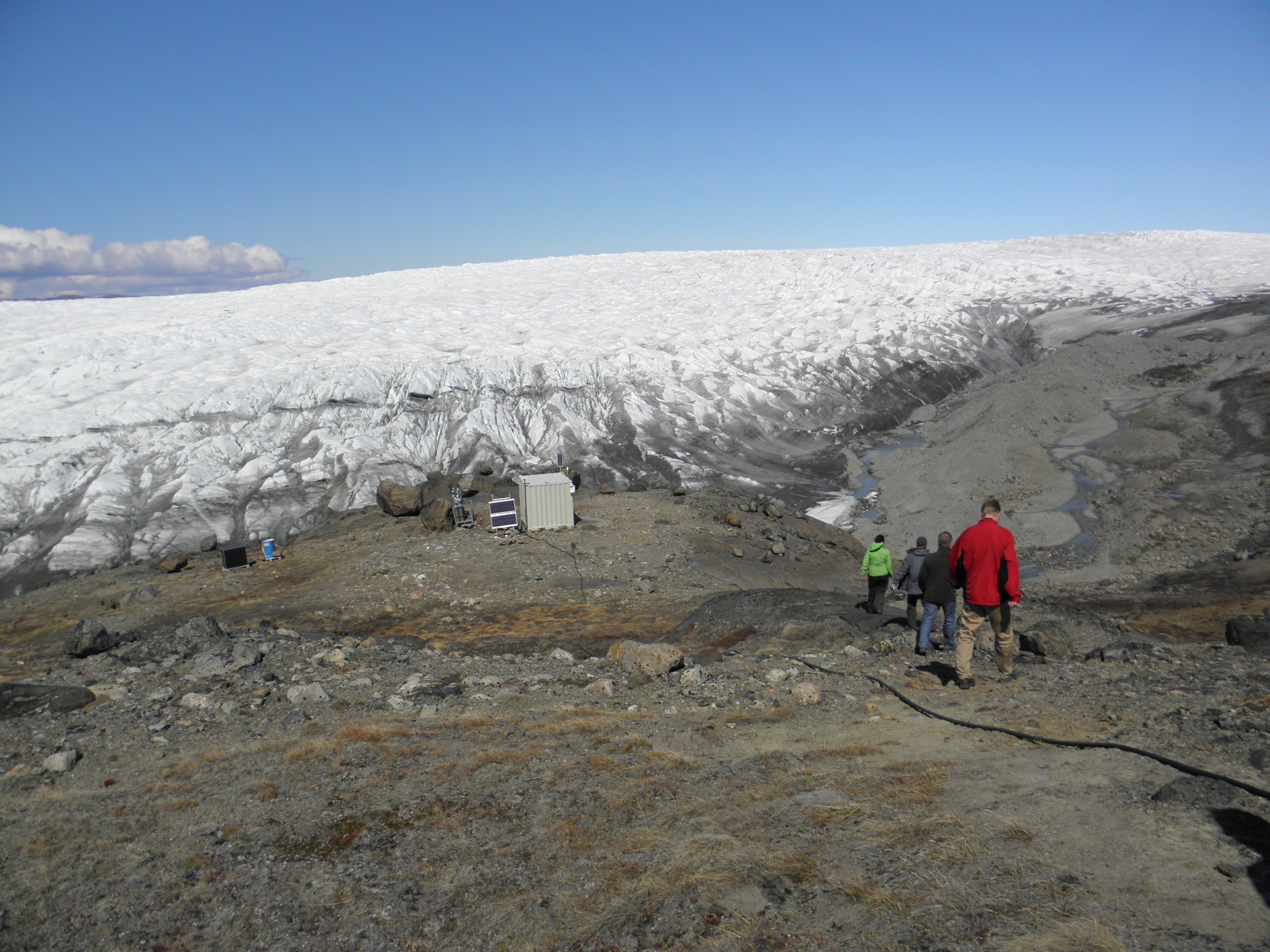 The group pf the Nordic geologists are approaching to the container which contains its equipment. Greenland, Ice Cap, closed to Kangerlussuaq.